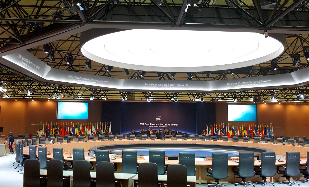 2012 Seoul Nuclear Security Summit Plenary at the Convention and Exhibition Center (COEX) in Seoul, South Korea, 28 March 2012. Photo by Young-Jae Kim (e-reporter, 2012 Seoul Nuclear Security Summit Preparatory Secretariat)